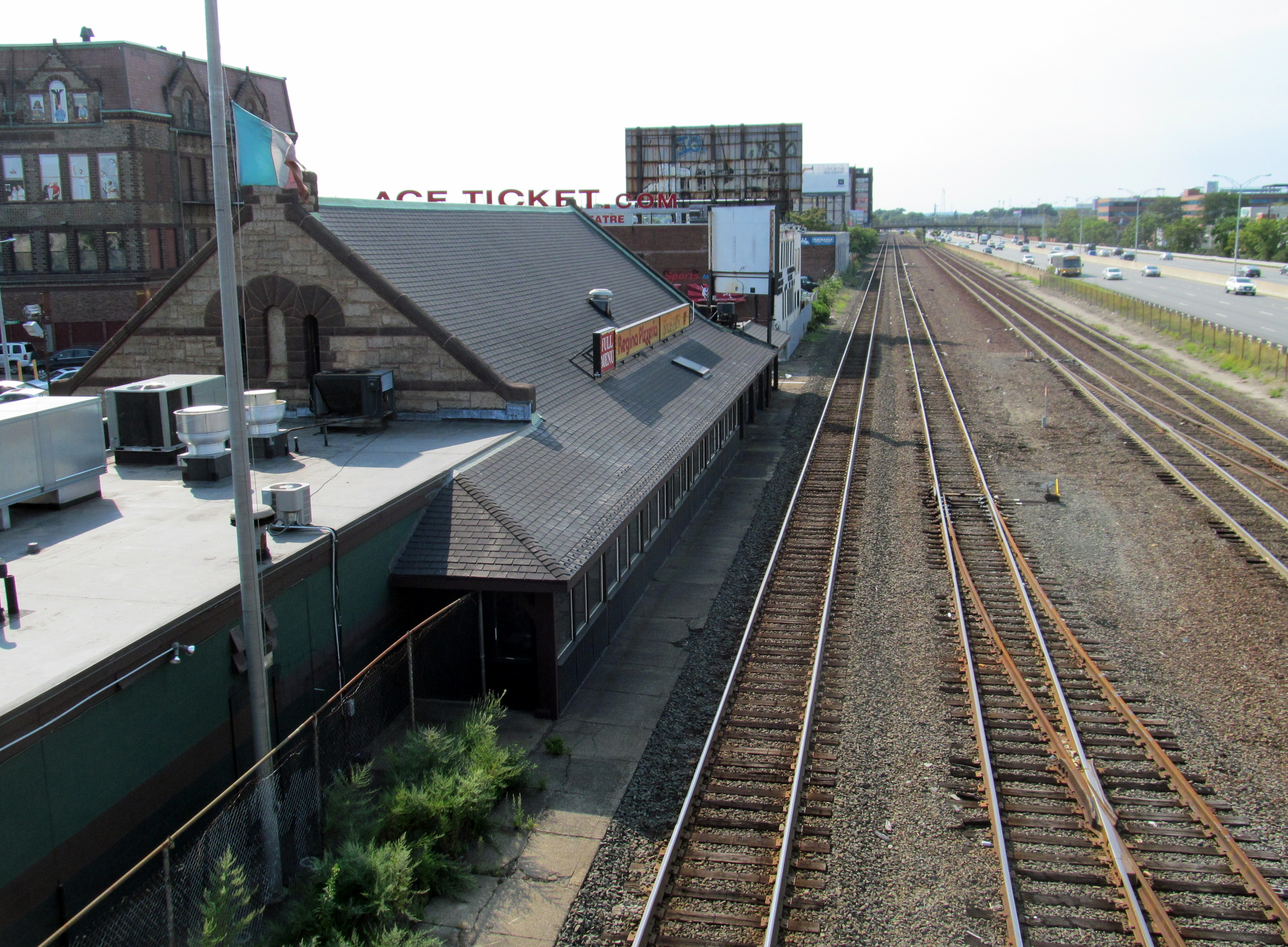 Allston Depot (now a pizzeria) and the Framingham/Worcester Line tracks, as seen from the pedestrian bridge.